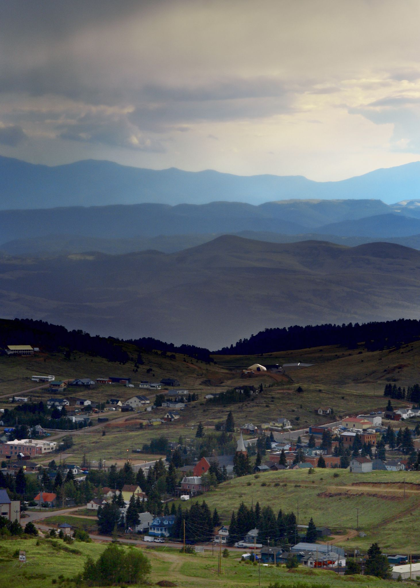 Overlooking Cripple Creek, Colorado, USA